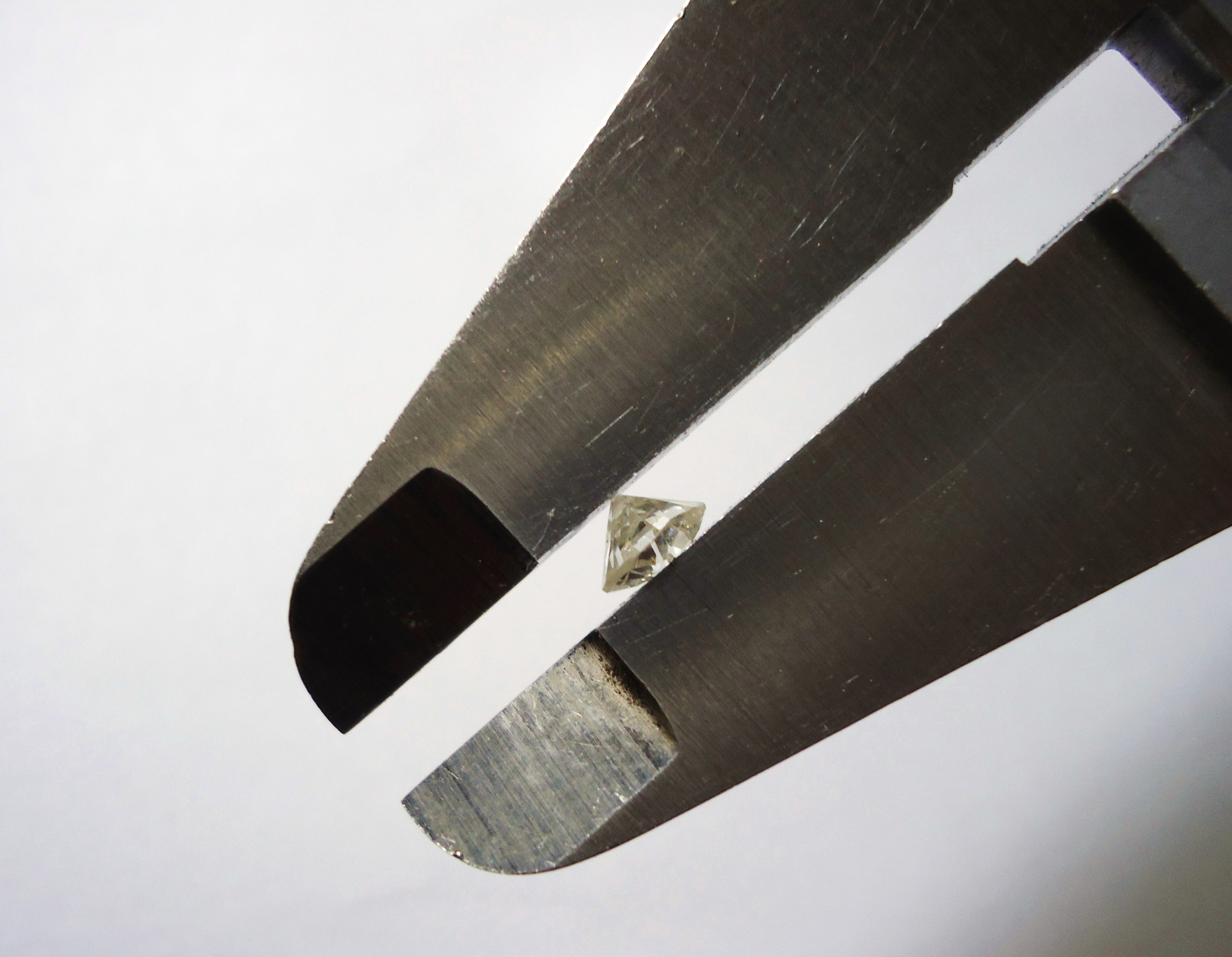 Measuring a diamond with a caliper. Photo: Mauro Cateb